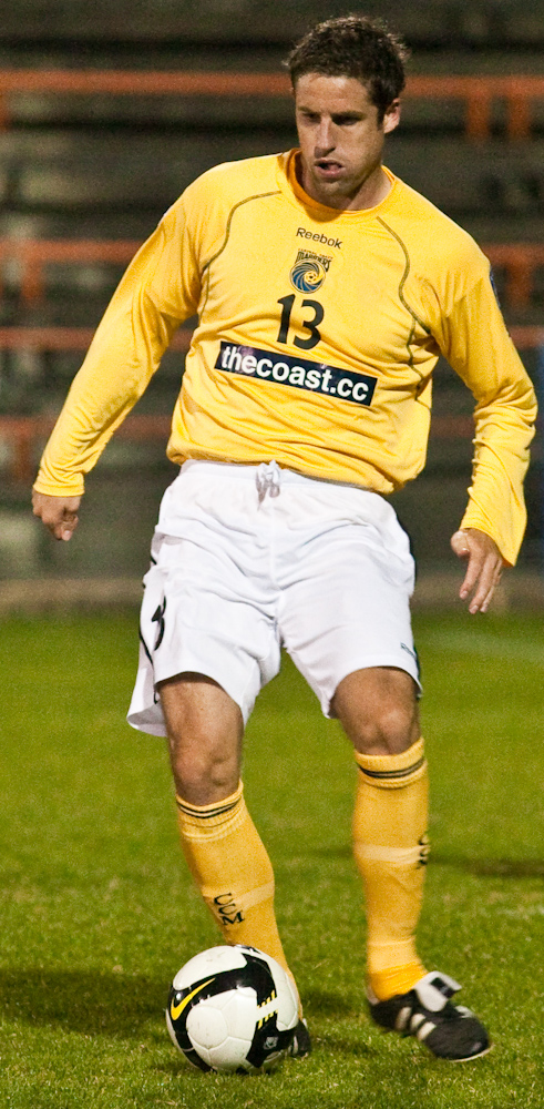 Chris Doig at a pre-season match between the Central Coast Mariners and Sydney FC.